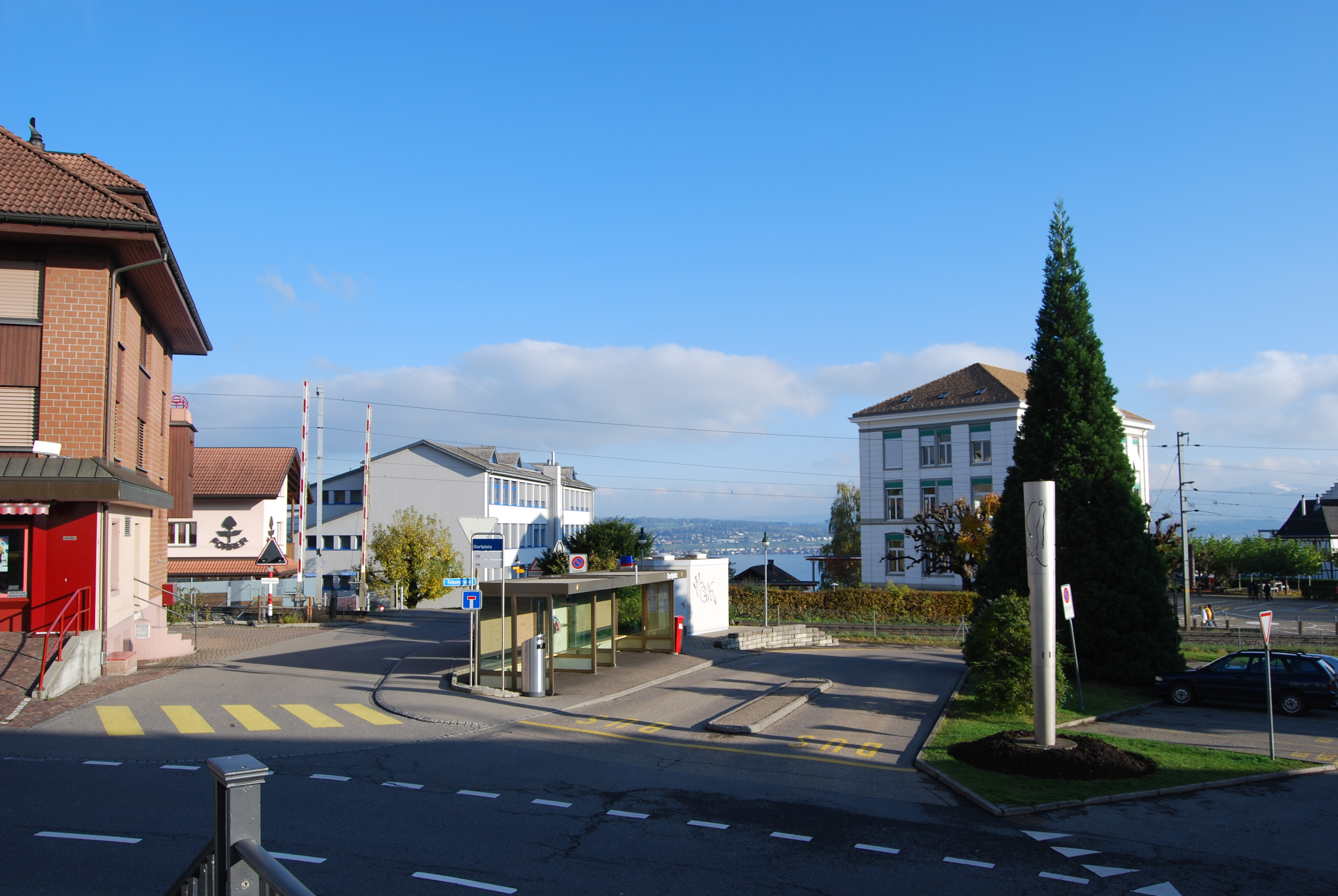 Wollerau, canton of Schwyz, SwitzerlandEsperanto: Wollerau, Kantono Ŝvico, Svislando